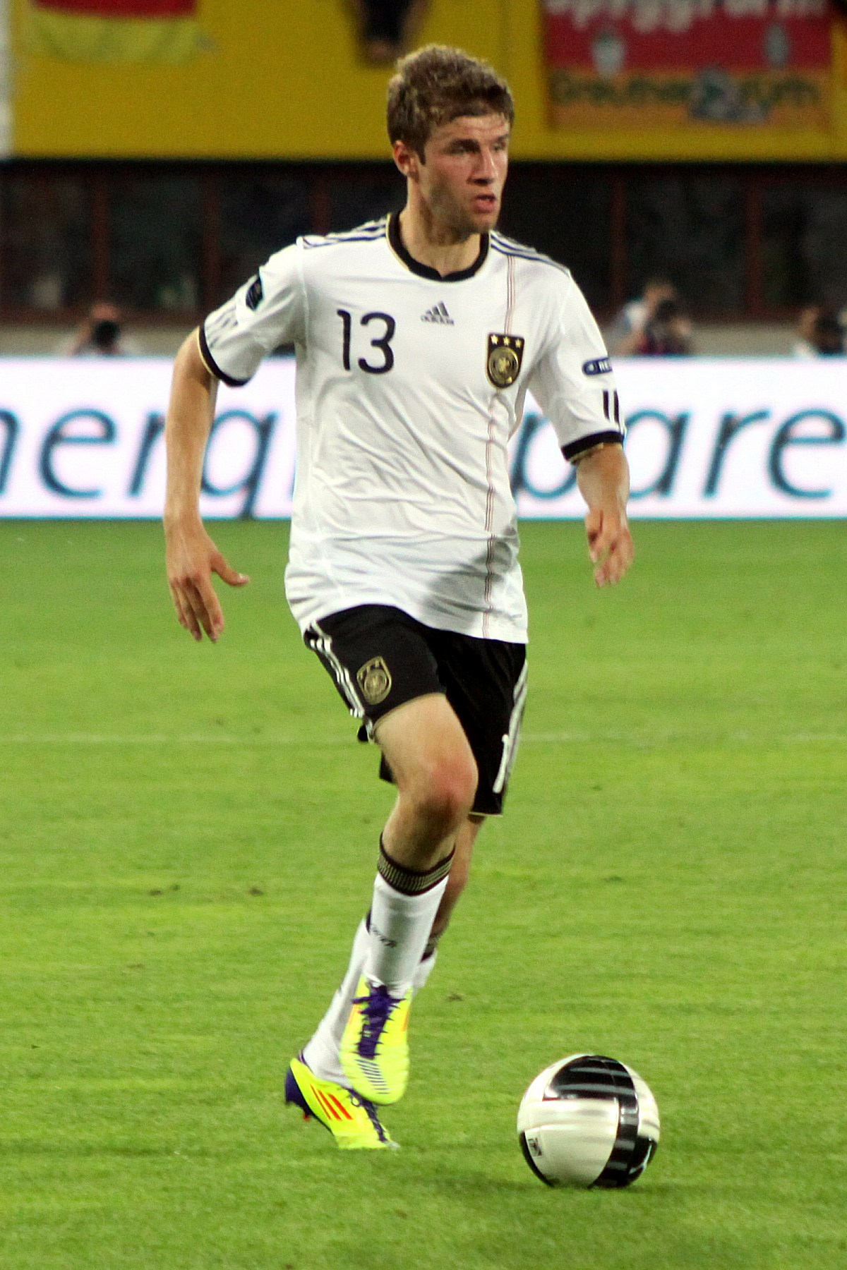 Thomas Müller (FC Bayern Munich), german national football team